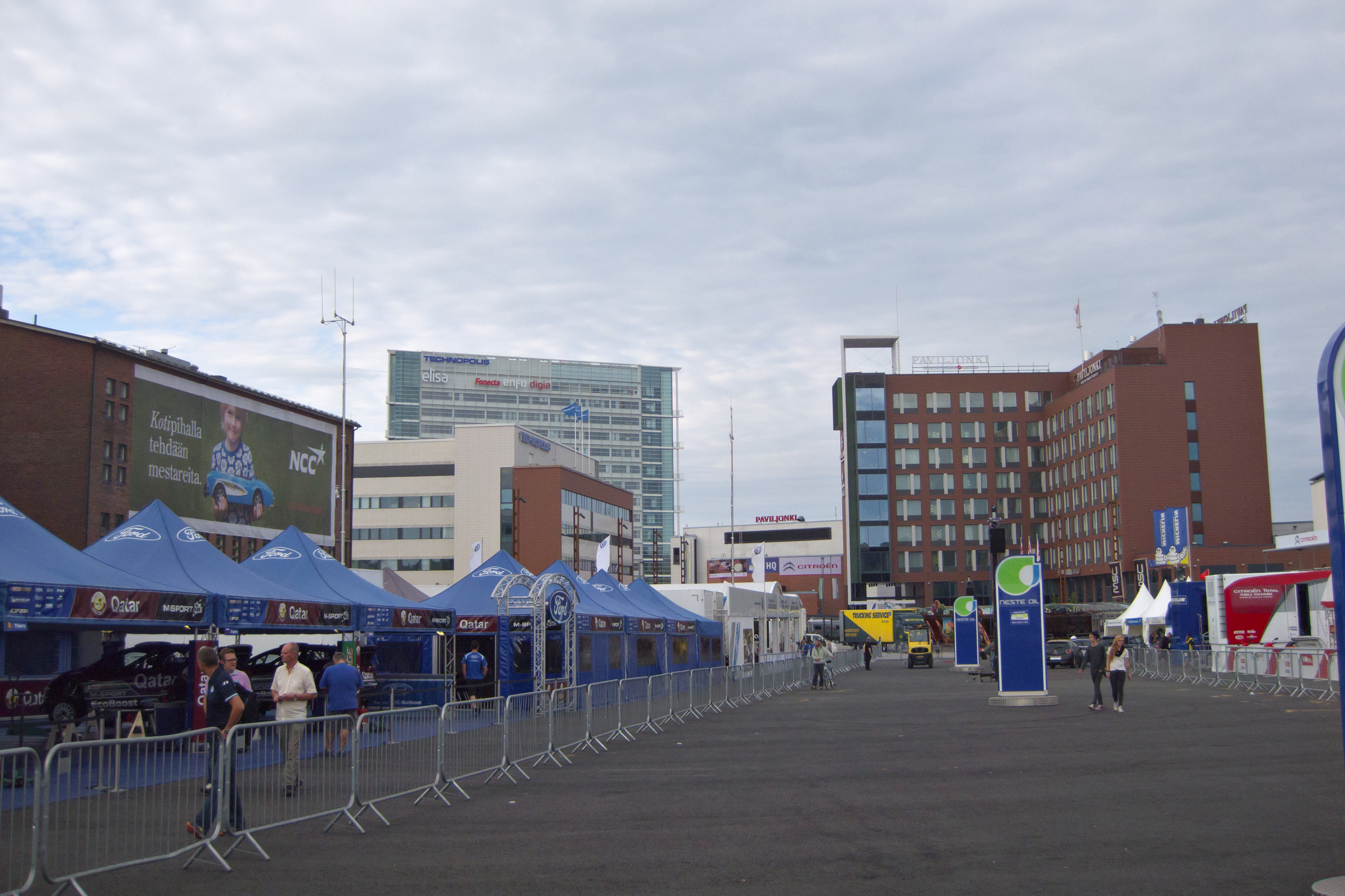 Tuesday at the service park of the 2013 Rally Finland.